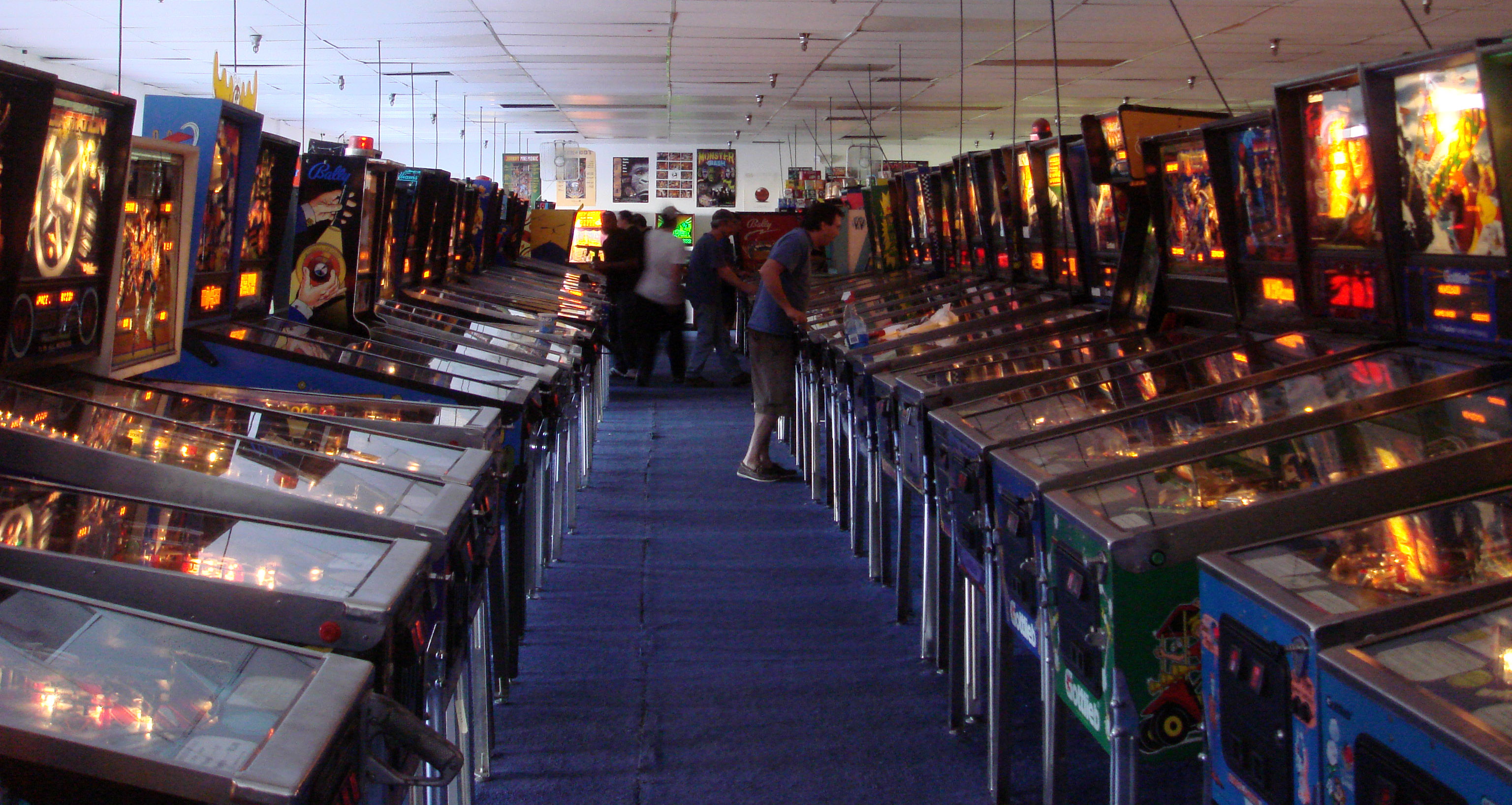 Row of more modern pinball machines at the Pinball Hall of Fame in Las Vegas, Nevada.